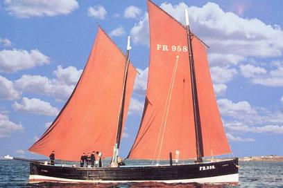 Photograph of Reaper under full sail. Source Scottish Fisheries Museum Boat Club The licensor requests that a donation be made to the Scottish Fisheries Museum Boats Club if commercial use is made of this image.